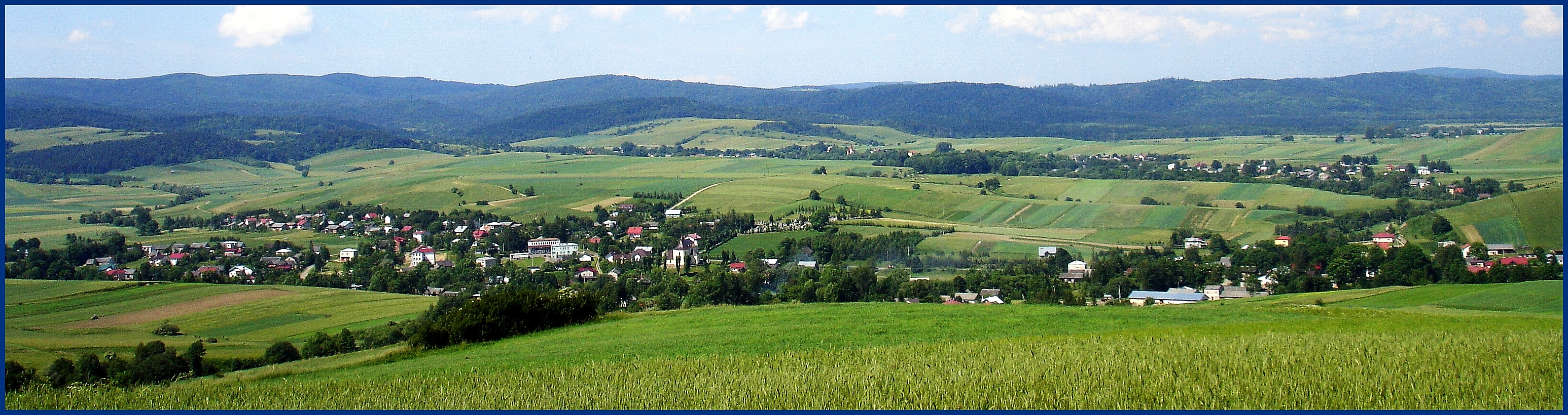 village Nowotaniec with Nagórzany view from Bukowica hill (farmland) 2007